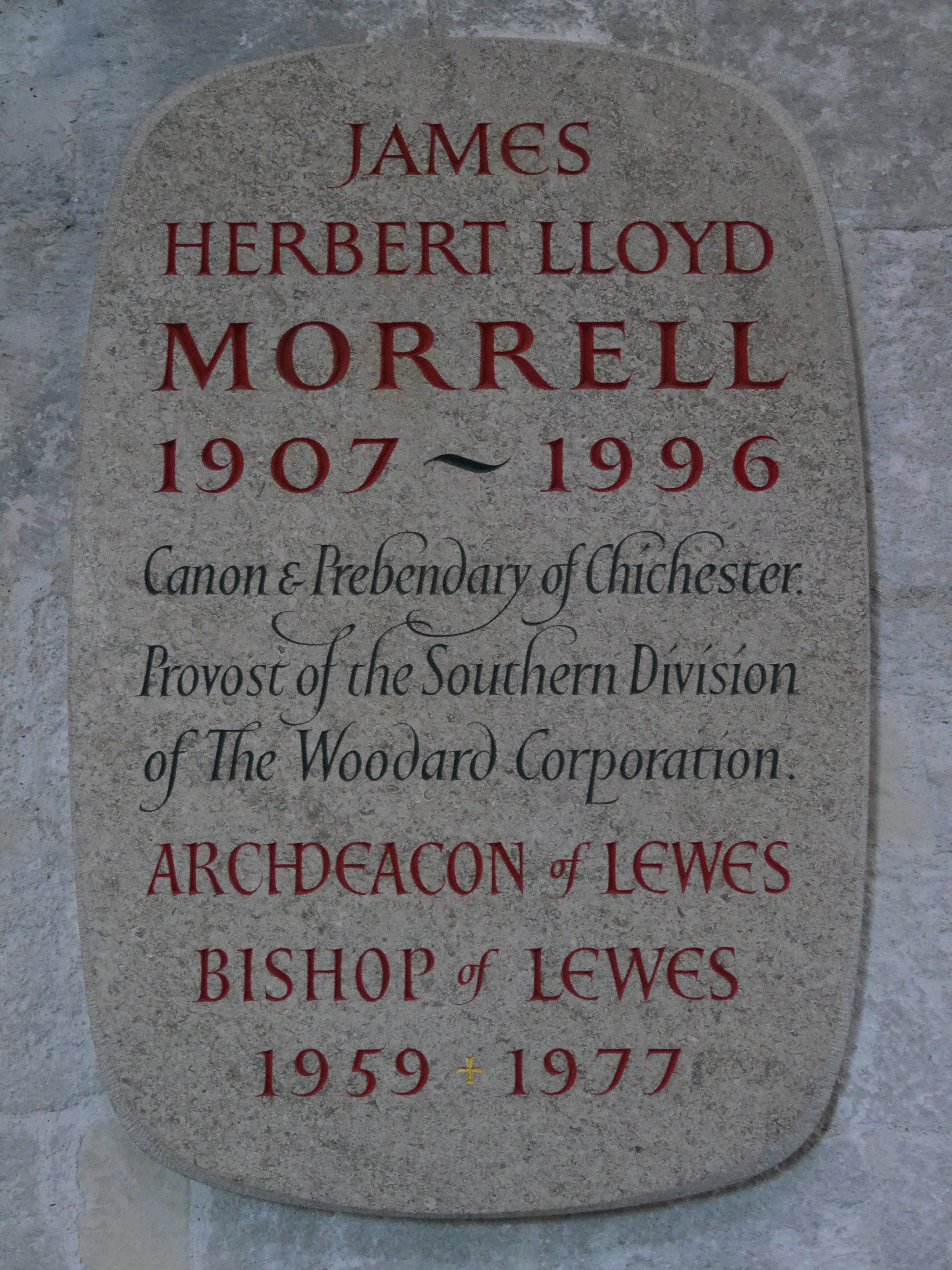 Chichester Cathedral, July 2015